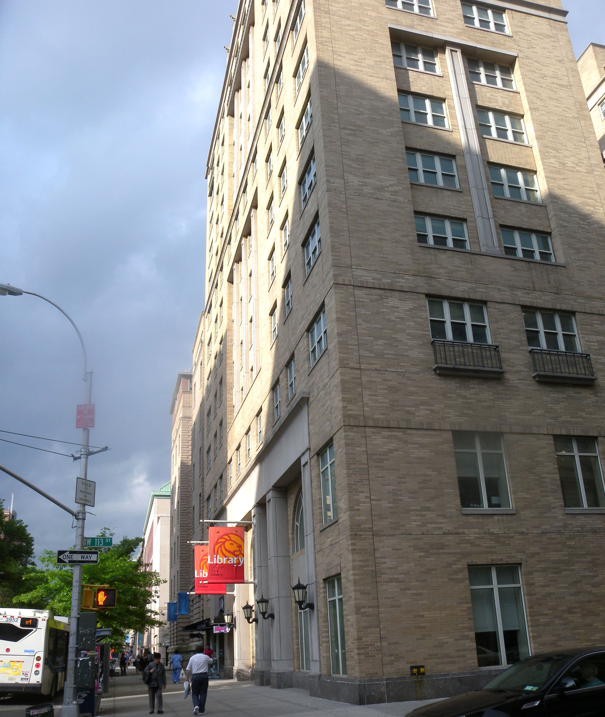 Looking north across 113 St and along Broadway at Morningside Library on a partly cloudy afternoon.